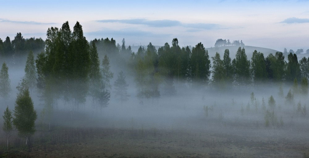 Views and landscapes Izborsk Valley. Evening mist